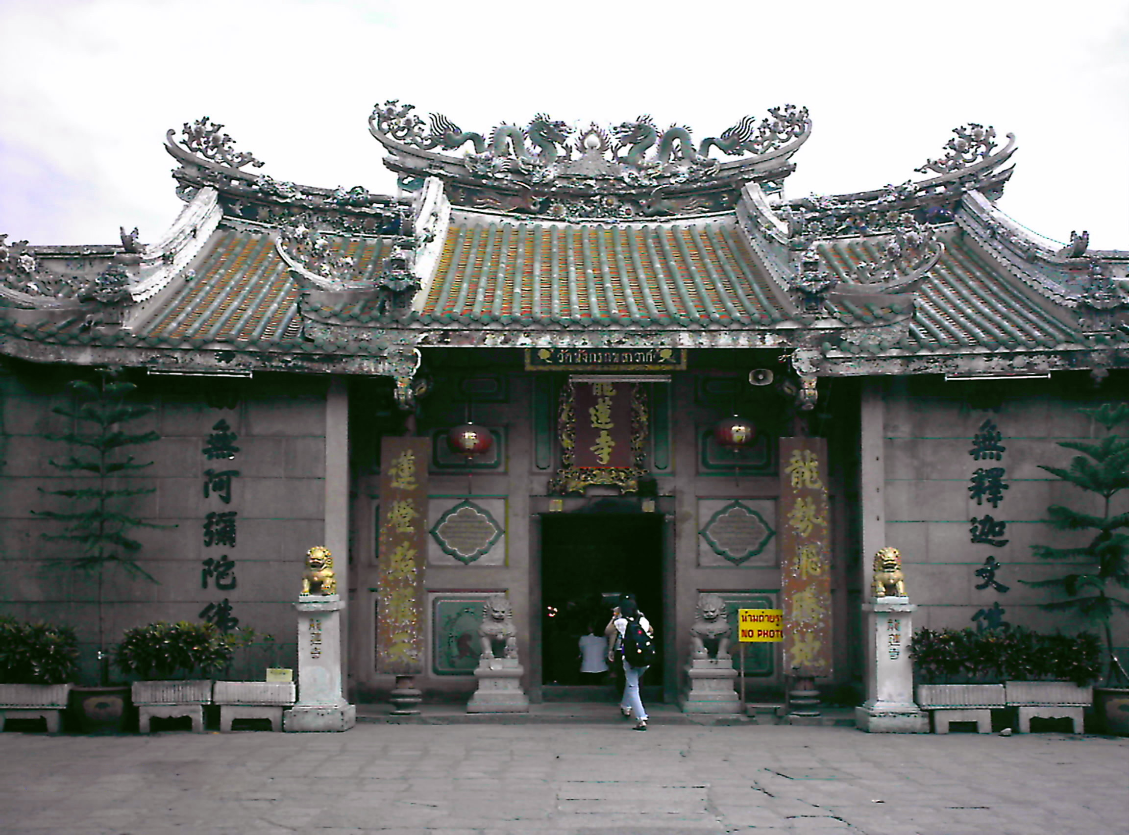 Main Hall of Wat Mangkon Kamalawat, Bangkok, Thailand 中文（香港）: 泰國 曼谷 龍蓮寺 主殿